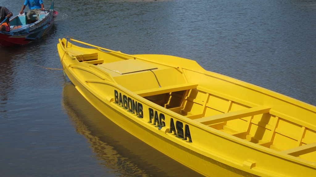 This is the first Bagong Pag-asa (New Hope) school boat that was given by the Yellow Boat of Hope Foundation to a community in Zamboanga City.